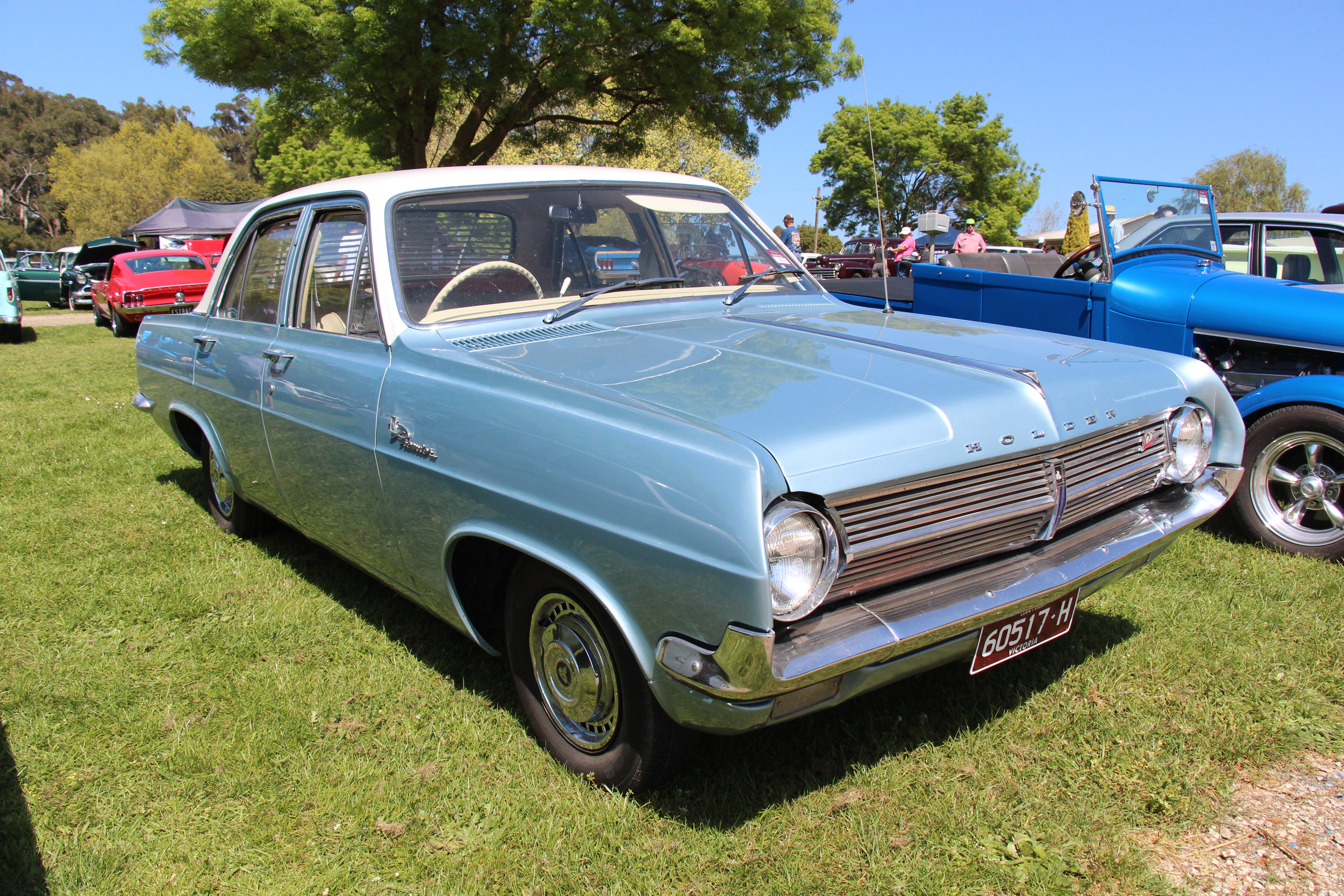 Aroona Blue with a Fowlers Ivory roof. The HD Holden was built from Feb 1965-April 1966 The HD was a completely new body, wider and longer than the old EH, creating more space. The unusual design of the front edge of the fender extending past the front headlight was considered not only ugly, but dangerous, ie, pedestrian safety and headlight effectiveness. Good news was disc brakes were now an option and the Hydramatic automatic transmission dropped for the new Powerglide. Like the EH, the HD was available in three models; Standard; 149 cu in, rubber floor mats and single tone paint. Special; carpet, stainless steel window surrounds, 179 cu in option, two tone paint option. Premier; 179 cu in, auto, disc brakes, bucket seats, console, radio, heater, special wheel trims and sill moulds. The high performance 140hp X2 option was available on the Special or the Premier, it got extra gauges, twin carbs, high lift camshaft and new inlet and exhaust manifolds Engines; 95 or 100hp 149 or 115 hp 179 red 6s (X2 140hp 179) Sedan; Standard, Special, Premier or X2 Wagon; Standard, Special or Premier also Utility and Panel Van